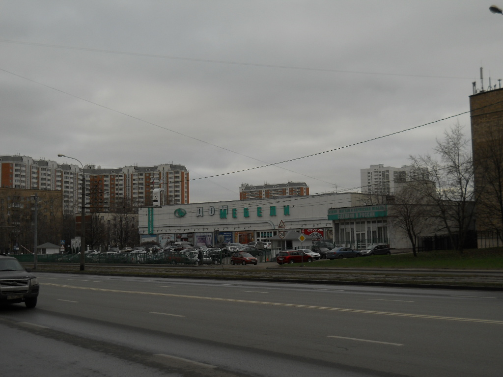 Polyarnaya street 21, Moscow, Russia.